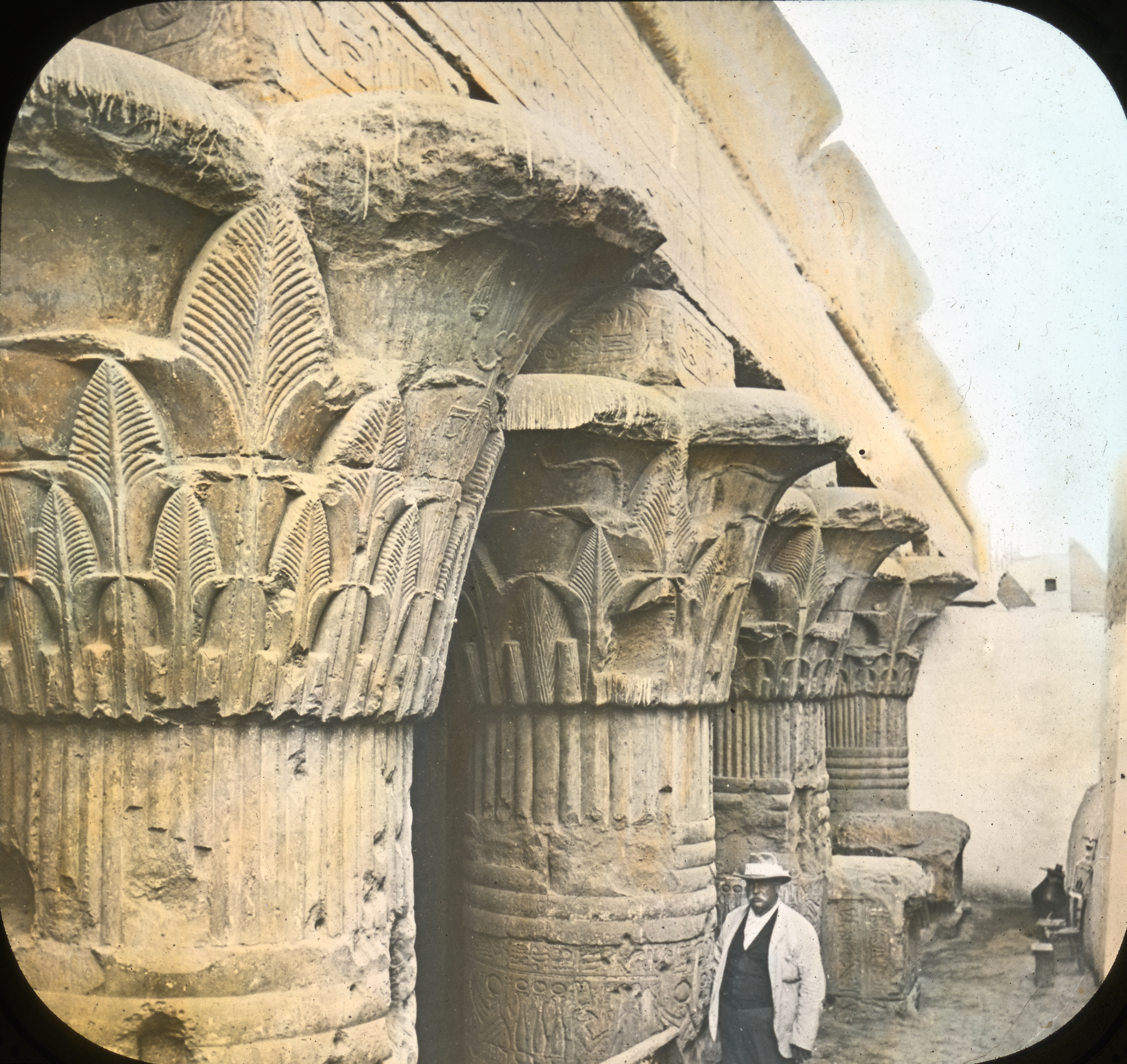 Lantern Slide Collection: Views, Objects: Egypt. Esneh [selected images]. View 02: Egypt - Columns in Temple of Esneh., n.d., T. H. McAllister, Manufacturing Optician. 49 Nassau Street, New York. Brooklyn Museum Archives (S10.08 Esneh, image 9883).